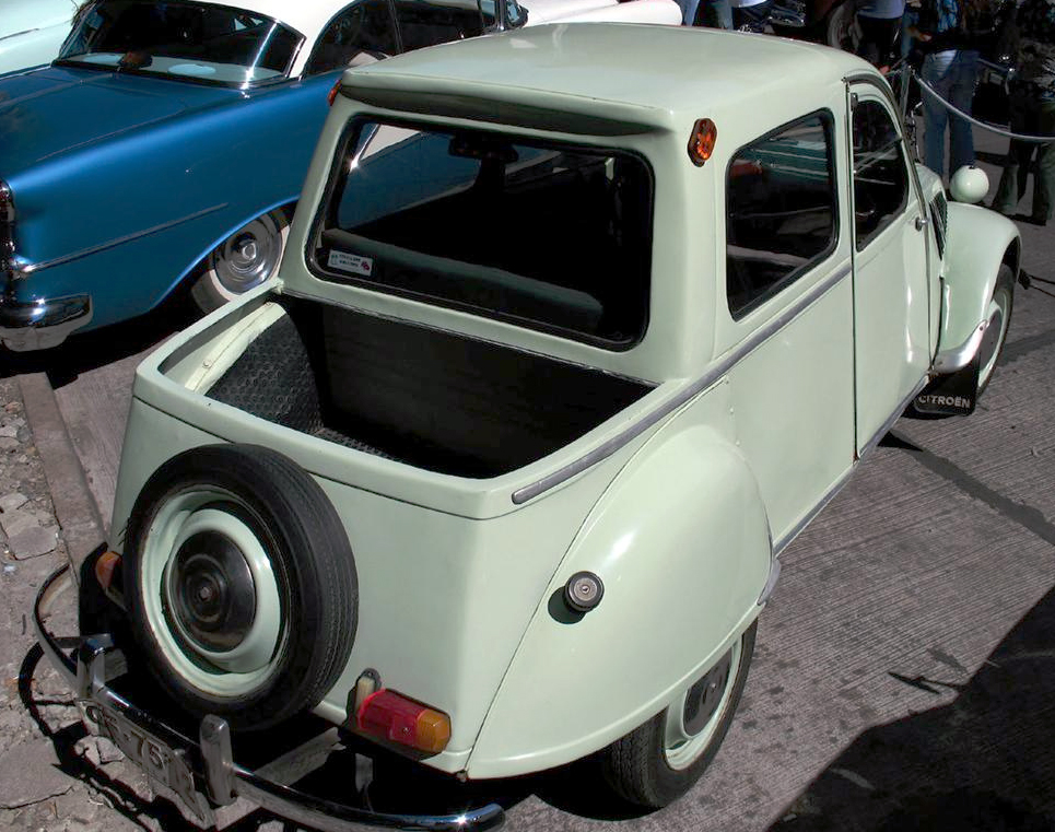 Chilean built 1961 Citroën "Citroneta" 2CV Azam 13hp with pickup bodywork.